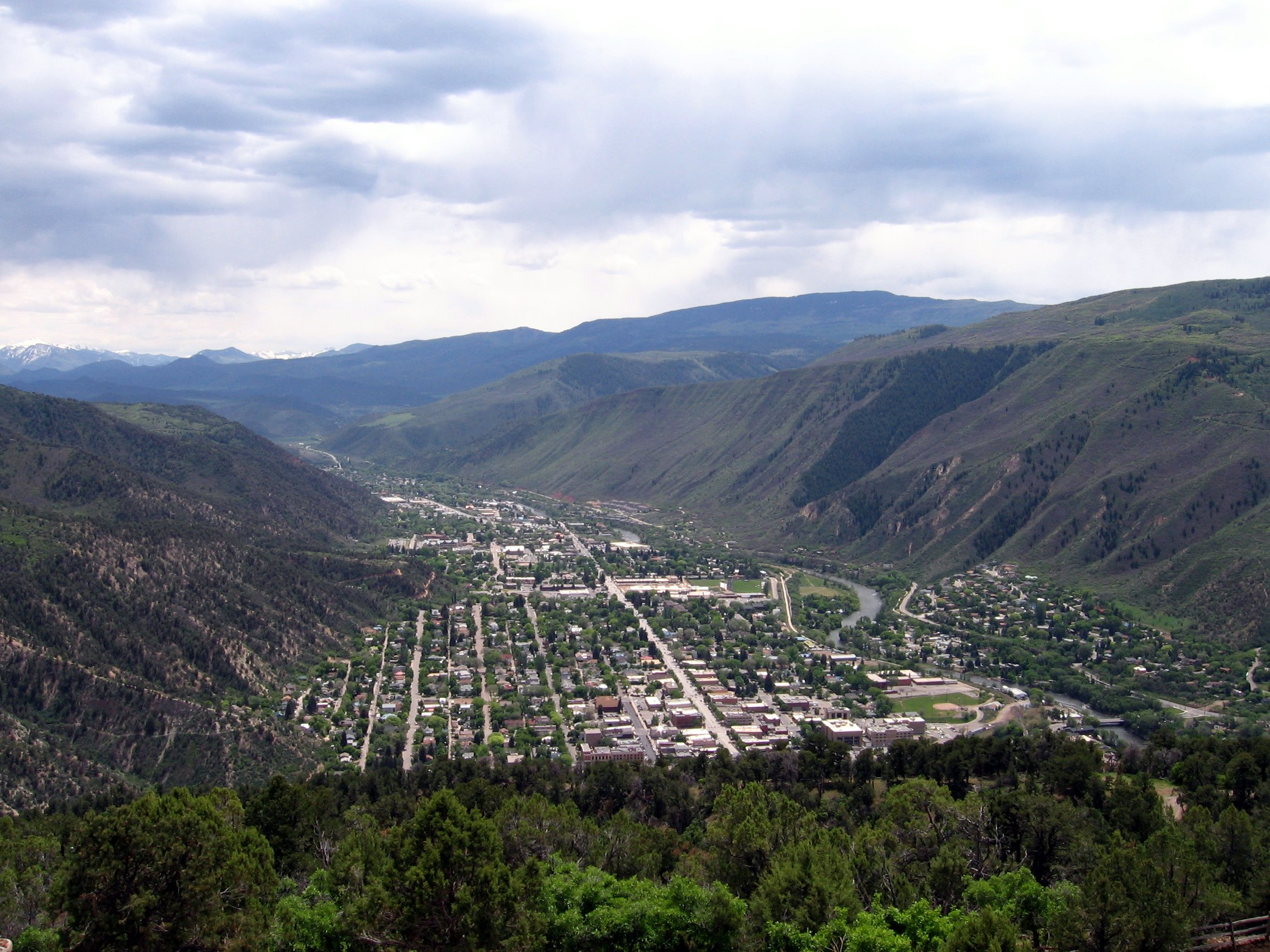 Glenwood Springs, Colorado. View from Glenwood Caverns looking south.